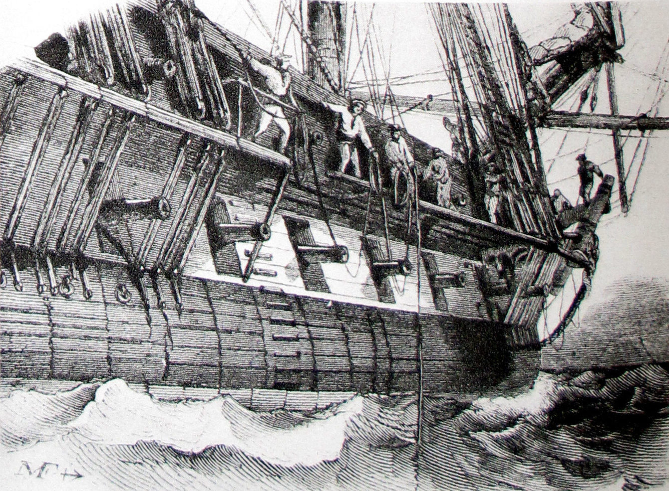 Measuring the depth of water aboard a frigate, illustration of 1844